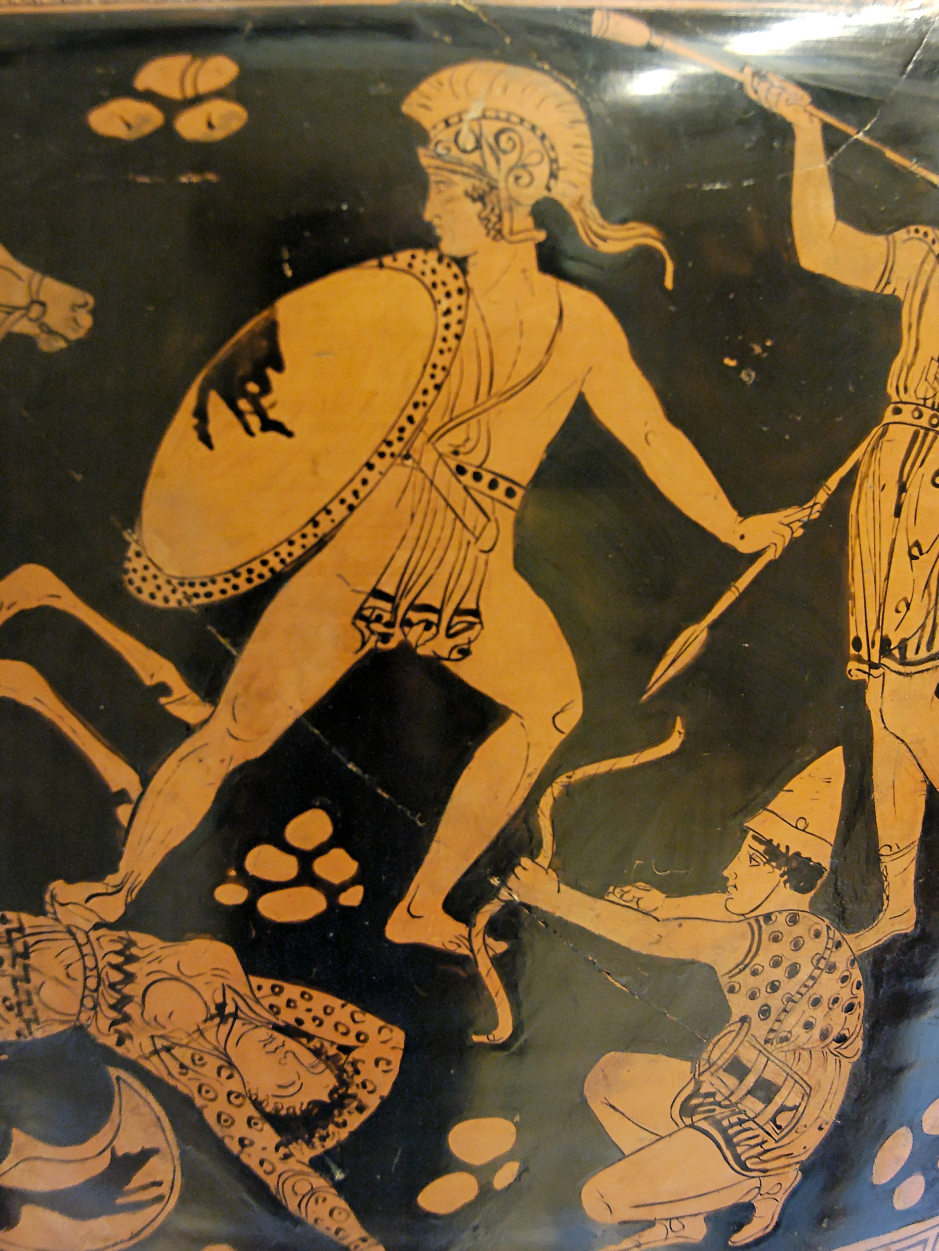 Amazonomachy. The male figure in the centre might be Theseus. Detail from an Apulian red-figured volute-krater, ca. 410–400 BC. From Ruvo.